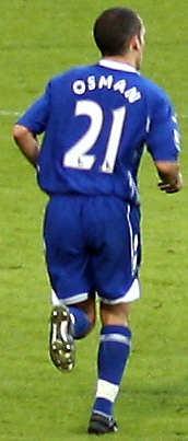 Leon Osman. Image cropped from original at flickr.